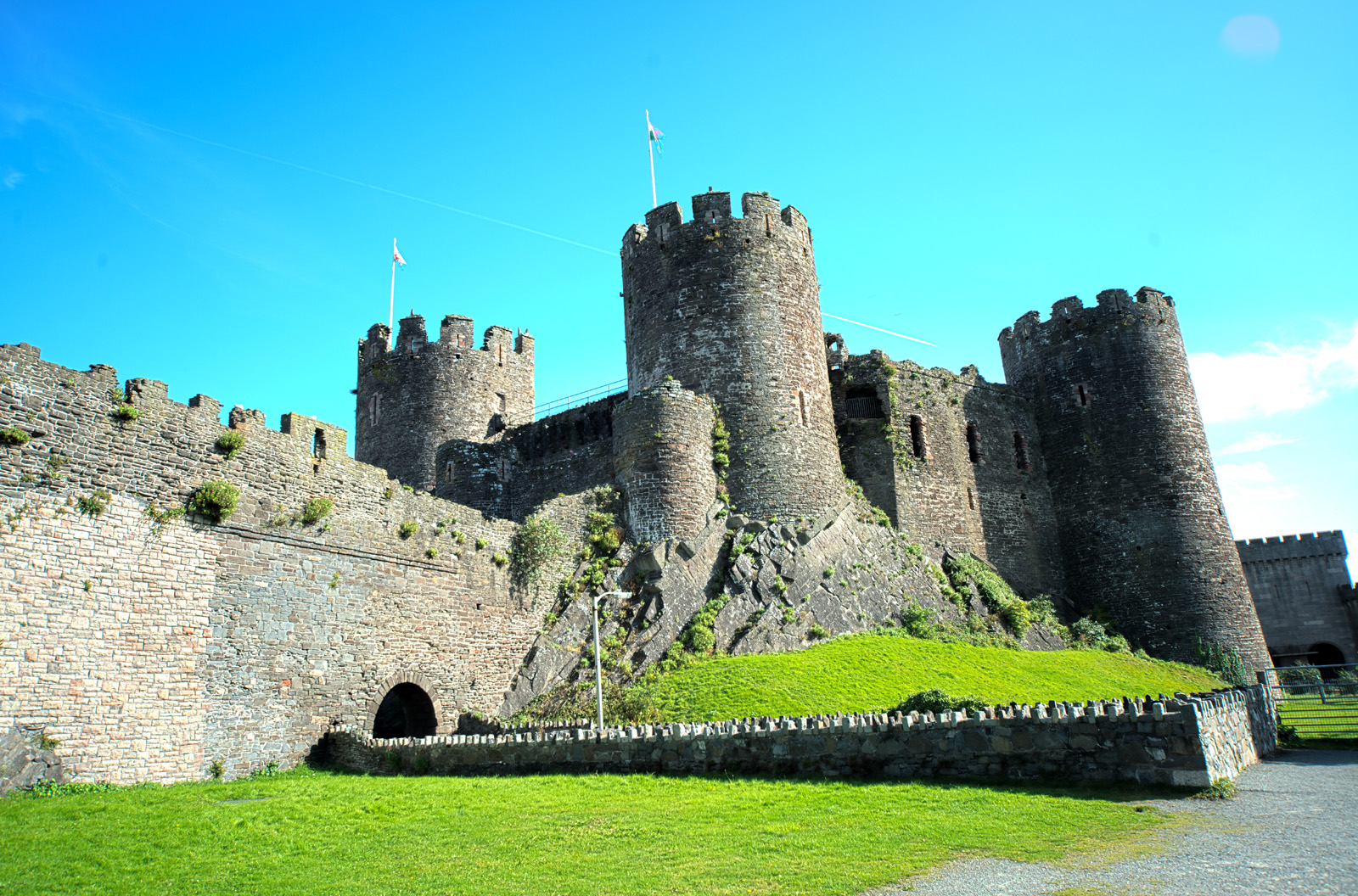 Conwy Castle (HDR)